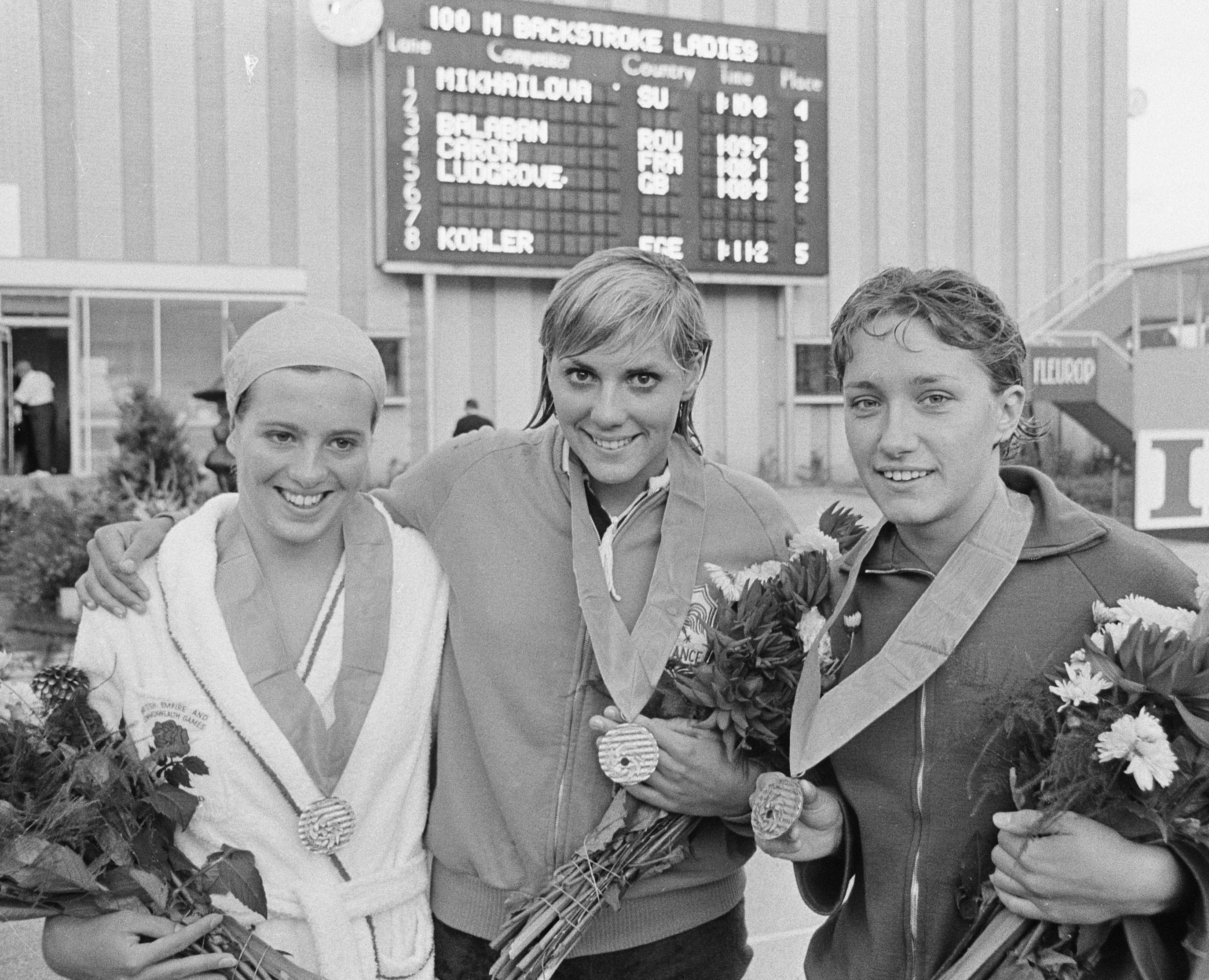 Left-right: Linda Ludgrove, Christine Caron, Cristina Balaban: podium of the European Championships 100 backstroke 1966, with timing visible on the board behind